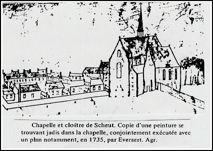 Chapel and cloister Scheut. Copy of a painting formerly in the chapel, executed jointly with a map, in 1735, by Everaert.